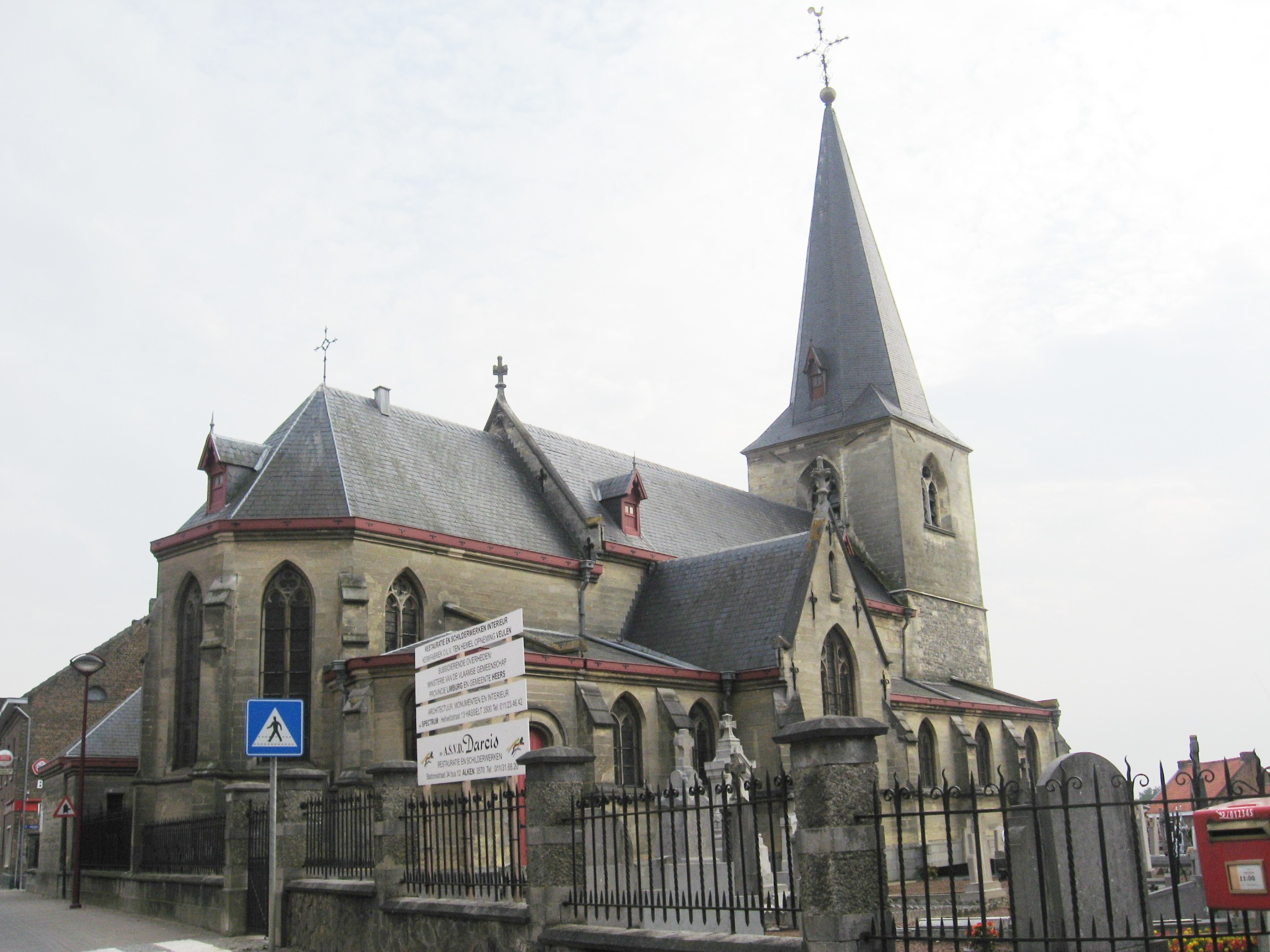 Church of the Assumption of the Blessed Virgin Mary in Veulen, Heers, Limburg, Belgium